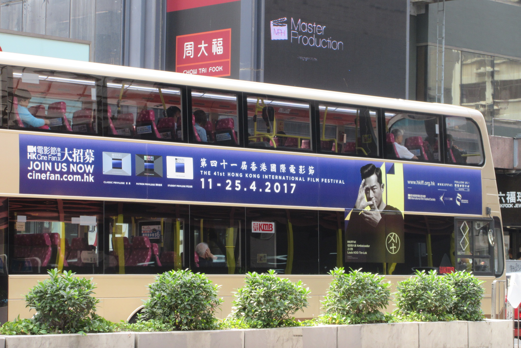 HK MK 旺角 Mongkok 彌敦道 Nathan Road Cine Fan Com 香港電影節 發燒友 HKIFF Hong Kong International Film Festival bus body ads in April 2017